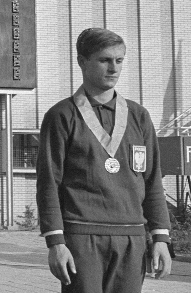 Jerzy Kowalewski, 10 m platform diving podium European Championships